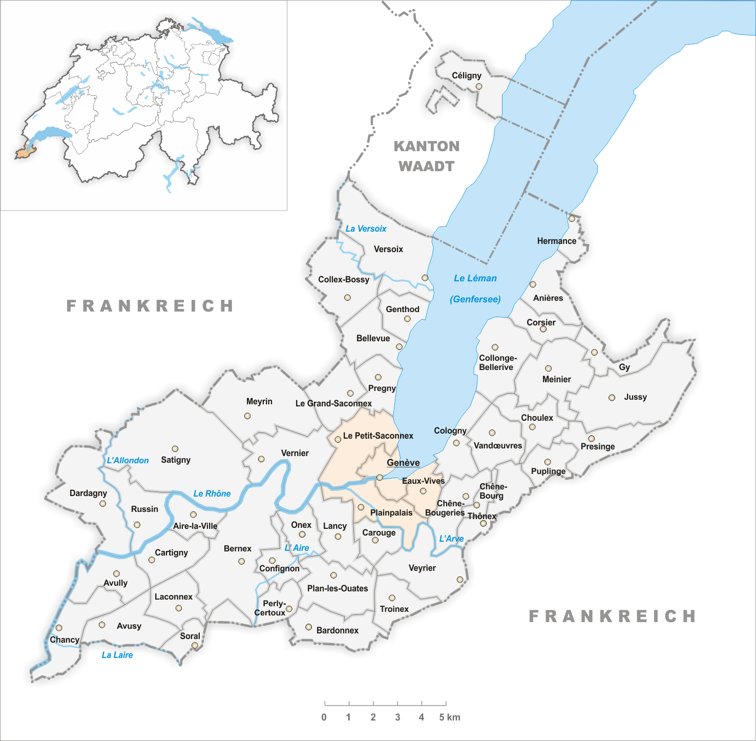 Municipalities in the canton of Geneva until 1930